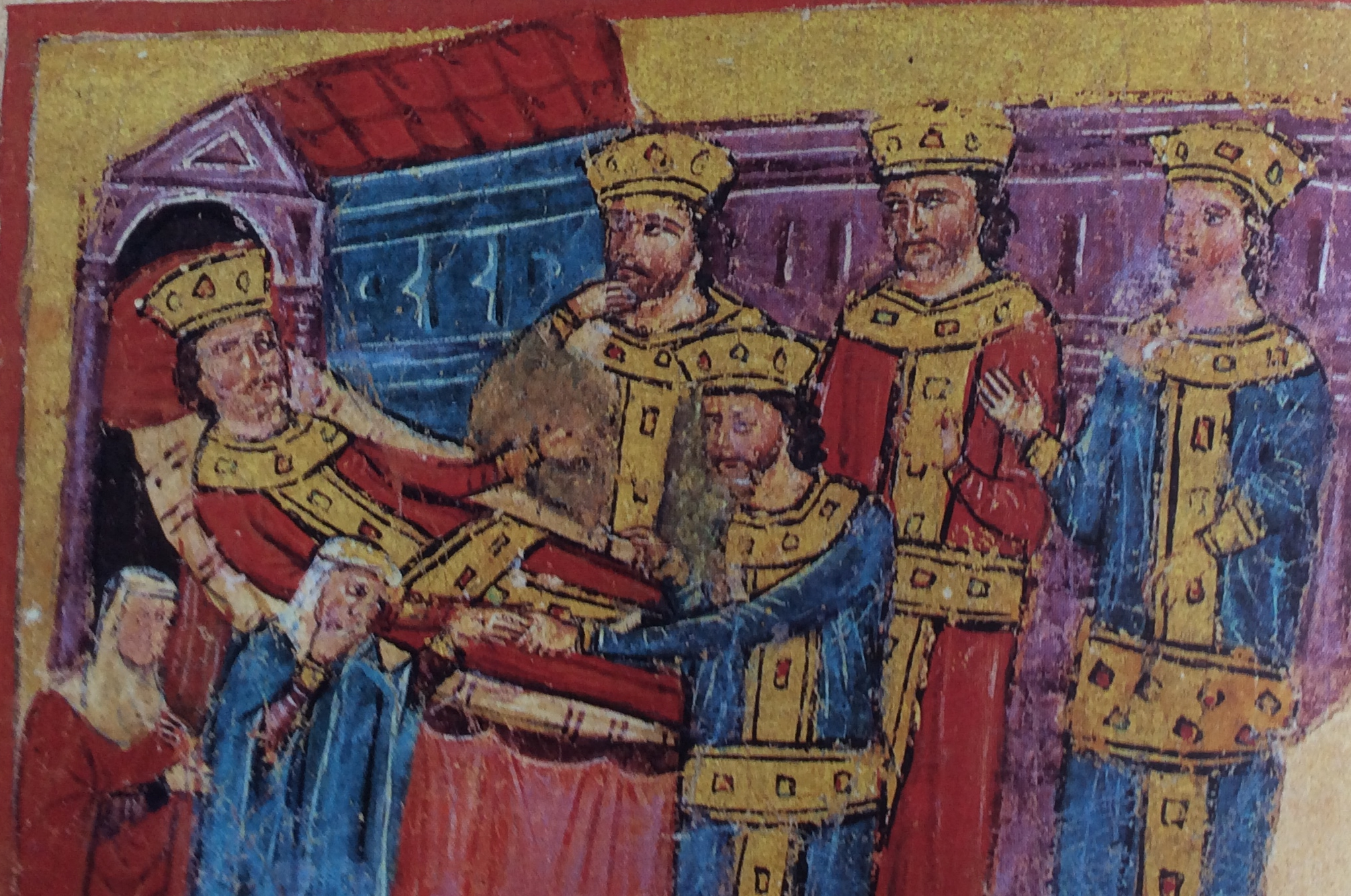 Alexander deathbed Hellenic Institute codex 5 f. 193v (Alexander Romance recension gamma)